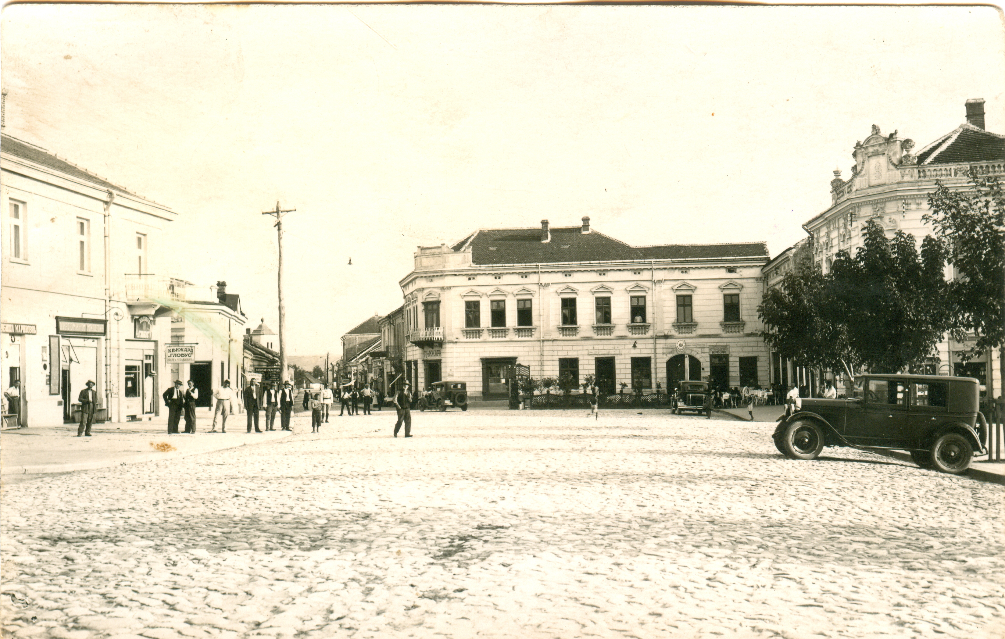 King Peter Square in Negotin in 1937. Srpski (latinica): Trg kralja Petra u Negotinu 1937.